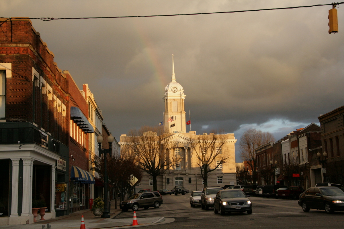 Columbia, Tennessee town square